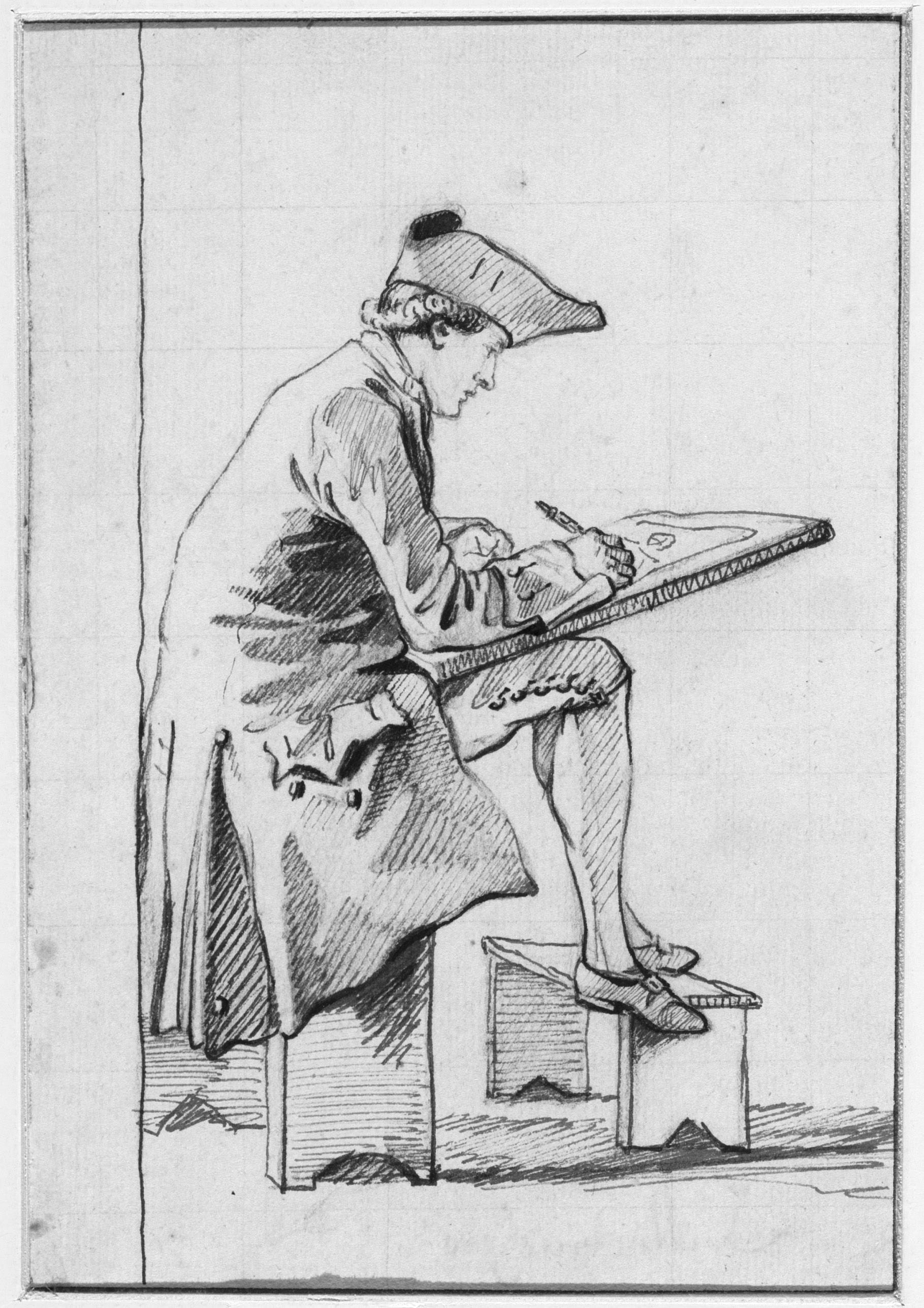 Jurriaan Andriessen (1742-1819) drawing 1764